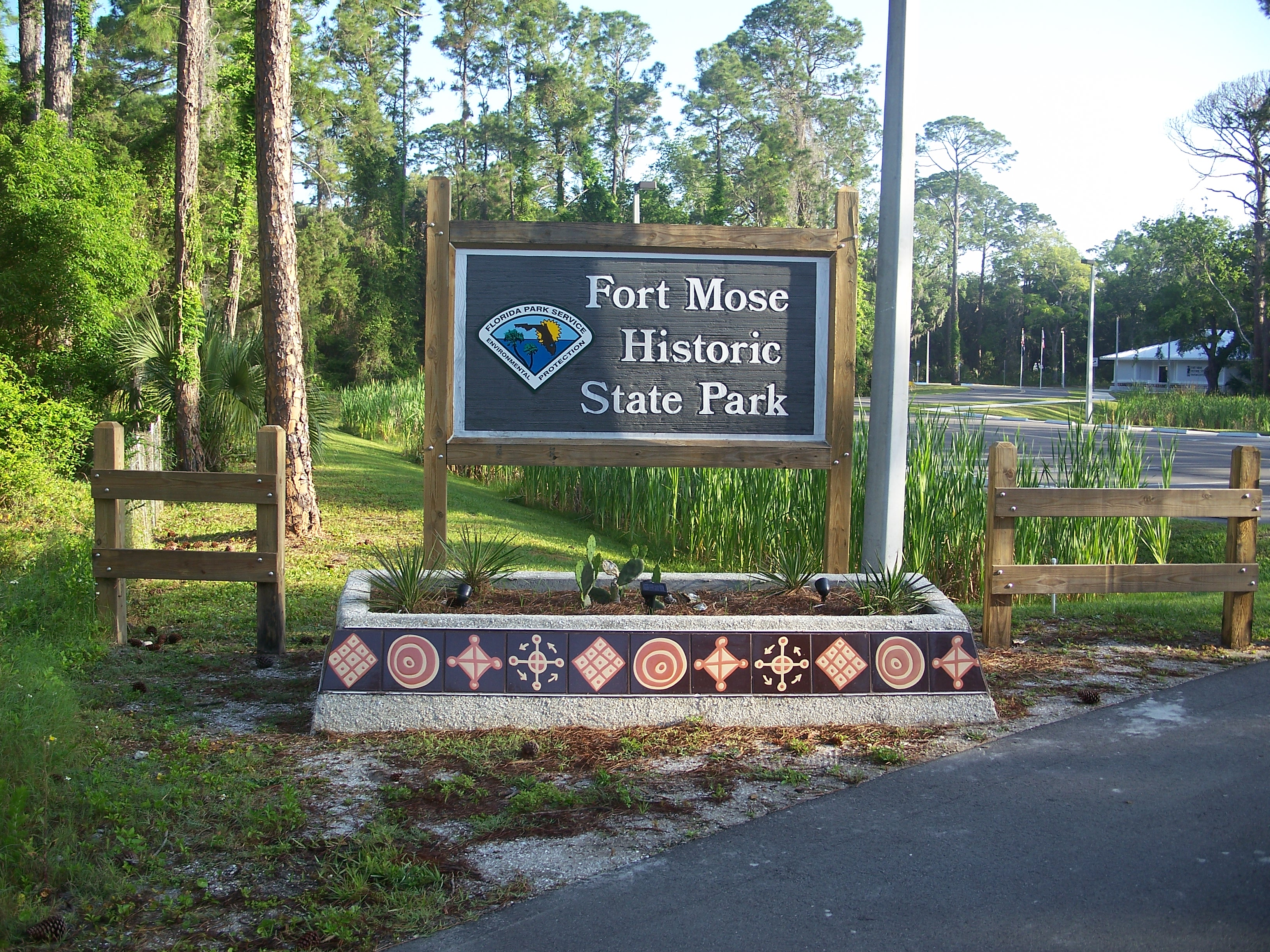 St. Augustine, Florida: Fort Mose Historic State Park: Park entrance.